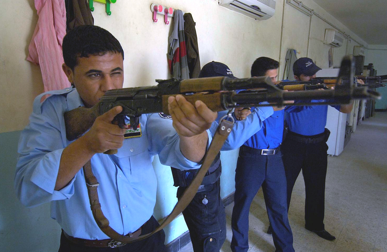 Iraqi policemen practice their fighting stances during a class on close quarters marksmanship at the Iraqi police station in Jisr Diyala, Iraq, May 2, 2008. Jason Williams, Civilian Police Assistance Training Team instructor, conducted the training.